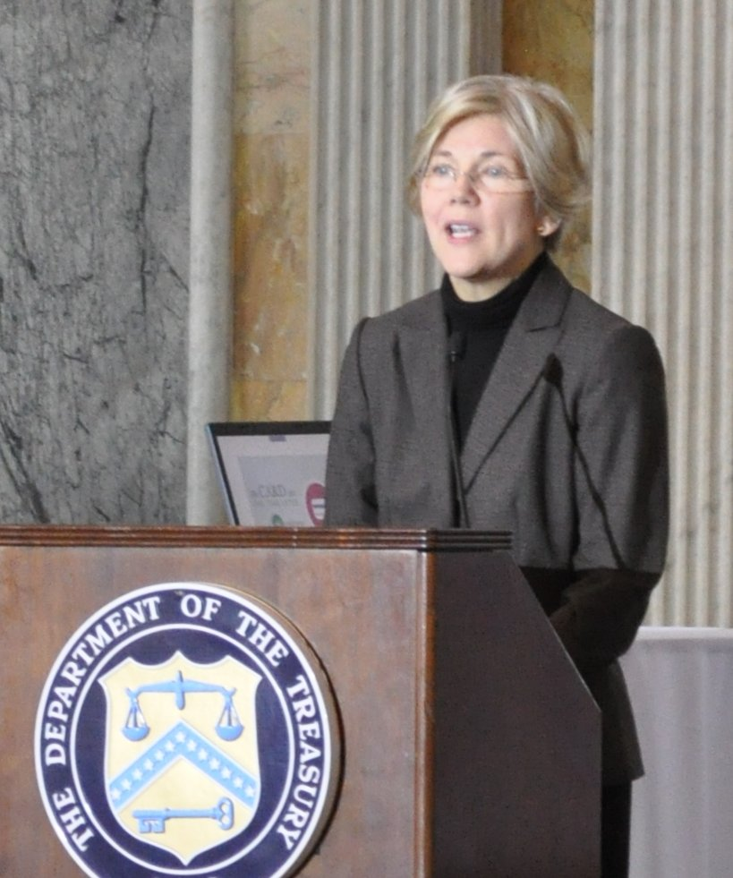 Cropped photograph of Elizabeth Warren, Assistant to the President and Special Advisor to the Secretary of the Treasury on the CFPB, delivering the keynote speech at a symposium called "The CARD Act: One Year Later", held at the U.S. Treasury Department on February 22, 2011. The official photos from which this one was selected have a mistaken date stamp of February 21.